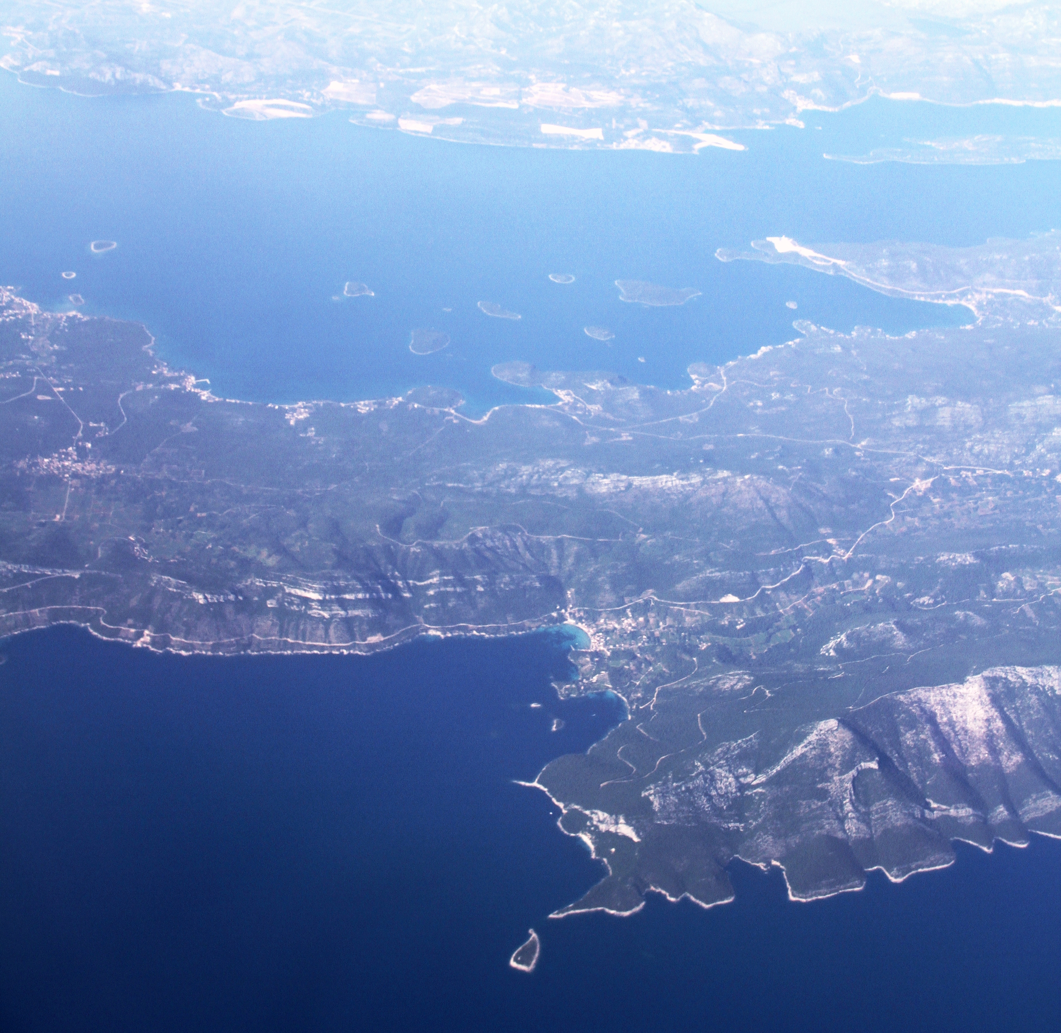 Aerial view of the Peljesac peninsula in south-western Dalmatia, Croatia. Adriatic sea. The peninsula is long and mountaneous.